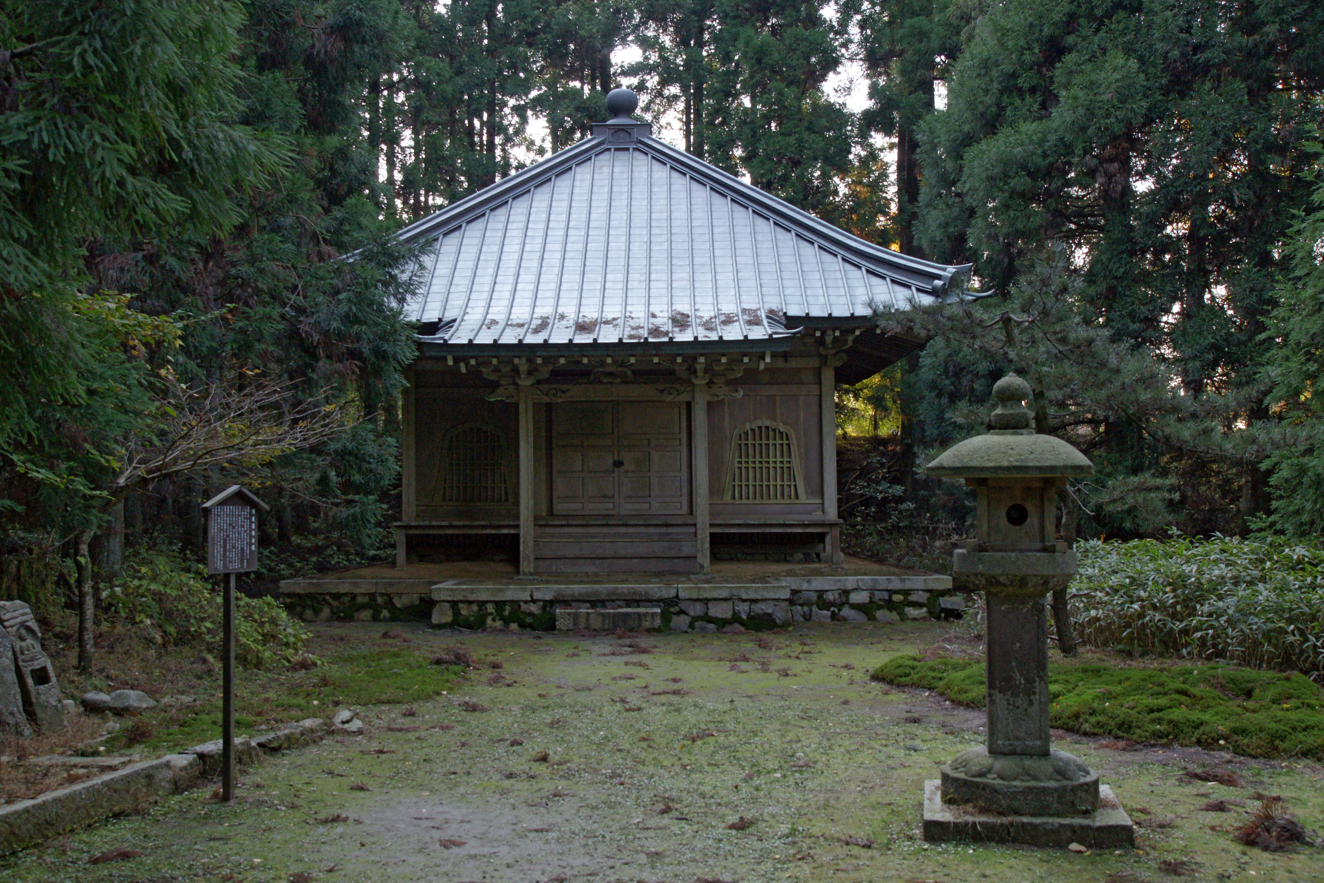 Eryodo of Enryakuji Buddhist temple, Otsu, Shiga prefecture, Japan.